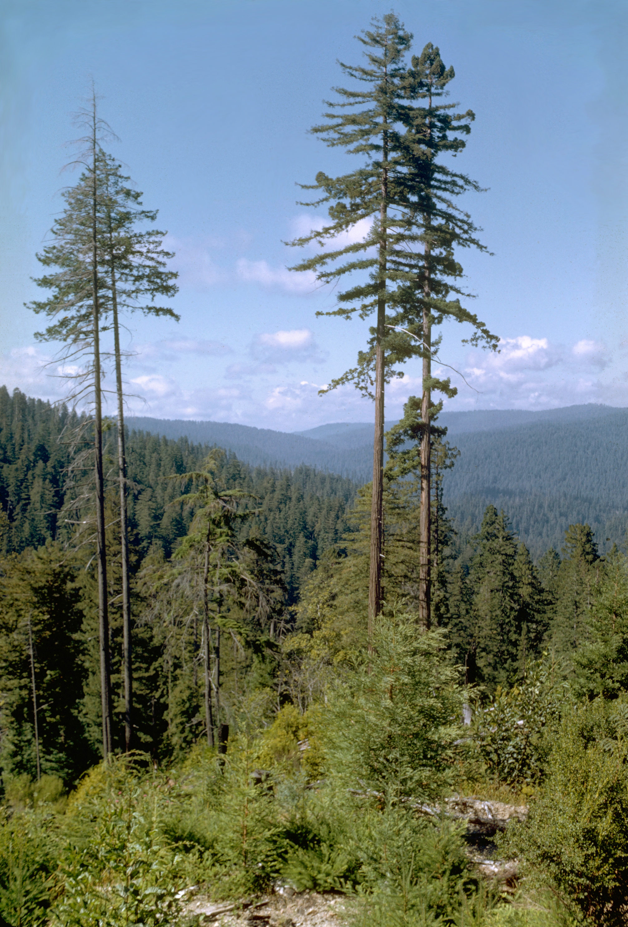 Coastal redwood forests with virgin groves of ancient trees, including the world's tallest, thrive in the foggy and temperate climate. The park includes 40 miles of scenic Pacific coastline.